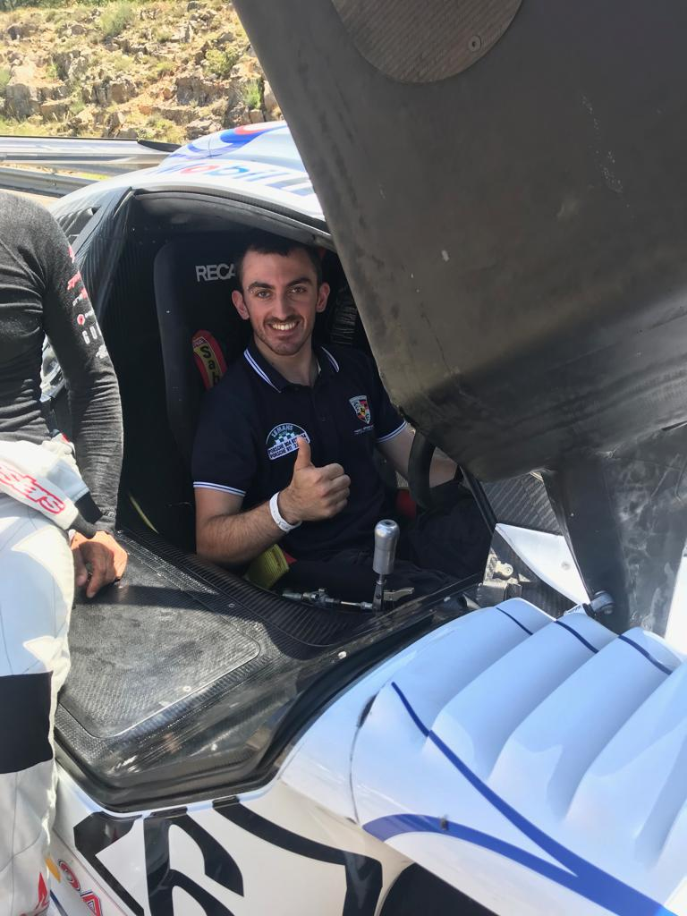 Anthony Lopez in Porsche GT1